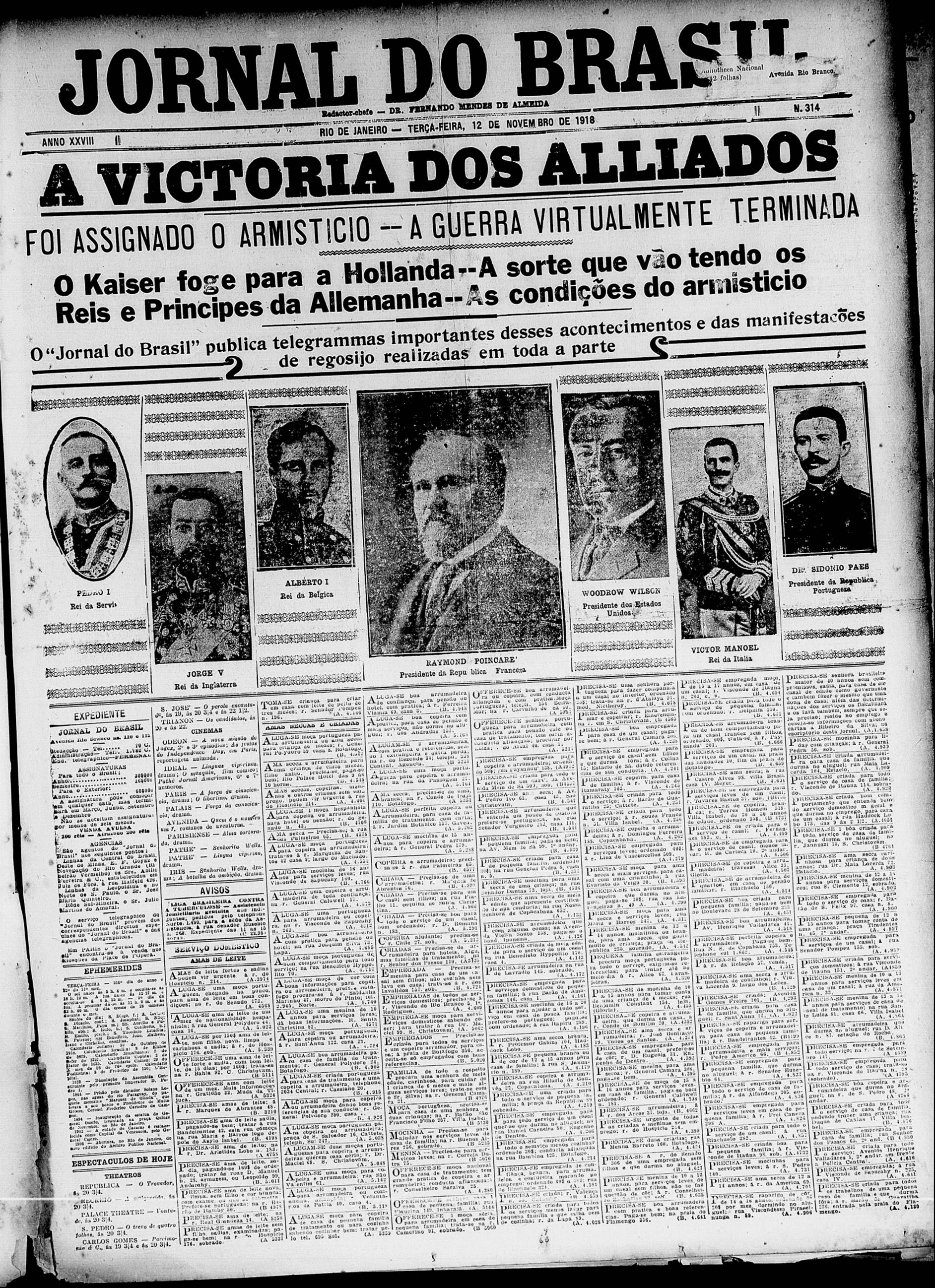 Cover of the "Jornal do Brasil" Brazilian newspaper regarding the Armistice of the First World War.